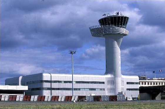 The control tower of Bordeaux–Mérignac Airport (LFBD), France. Designed by Philippe Starck and inaugurated in 2000.